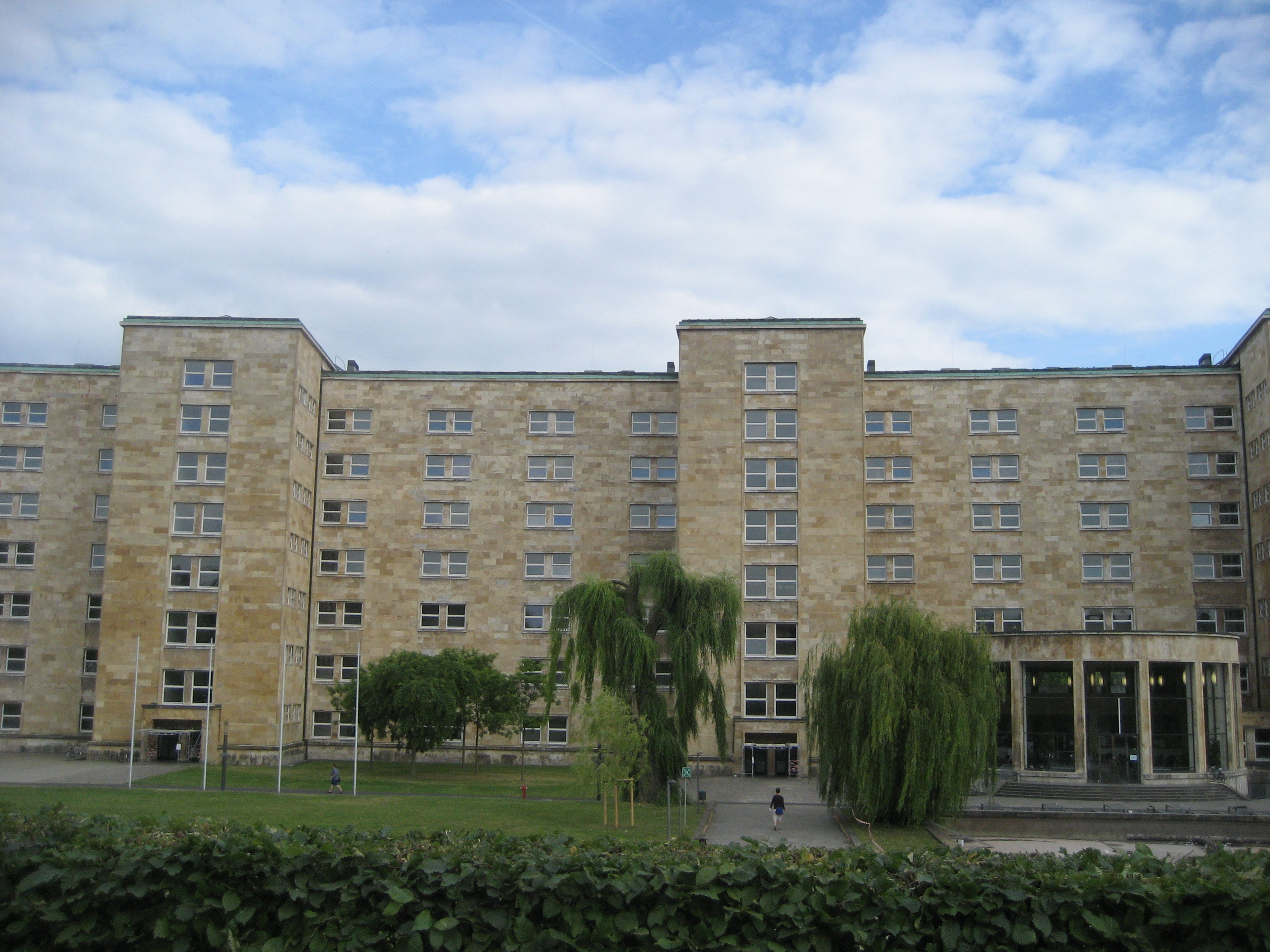 IG Farben Building, Johann-Wolfgang-Goethe-Universität Frankfurt am Main (Germany)